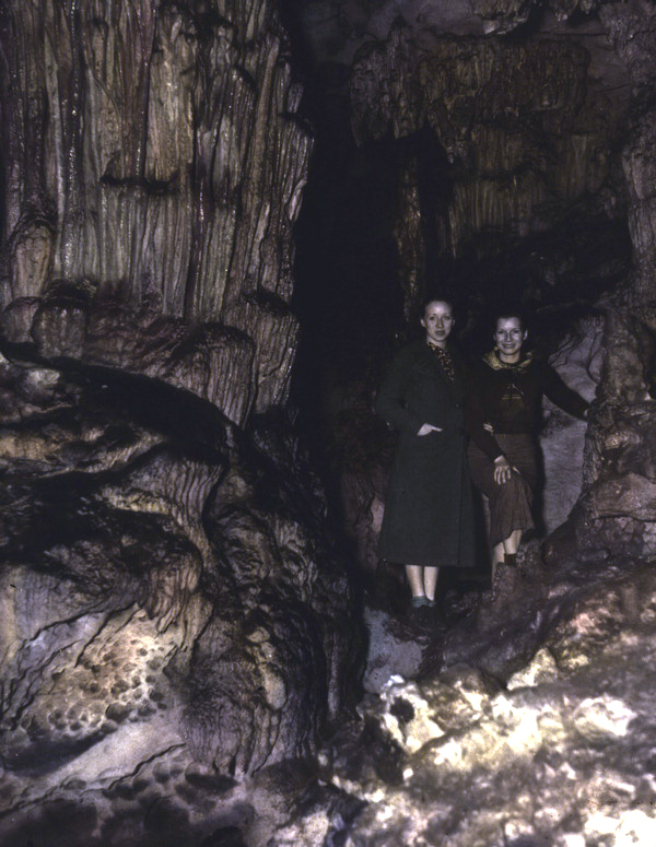 Local call number: Ep18 Title: [Two women standing inside a cavern] Date: Ca. 1940s. Physical descrip: 1 glass transparency : applied color ; 8 X 10 in. Series Title: (DER glass lantern slides.) Repository: 500 S. Bronough St., Tallahassee, FL 32399-0250 USA. Contact: 850-245-6700. Persistent URL